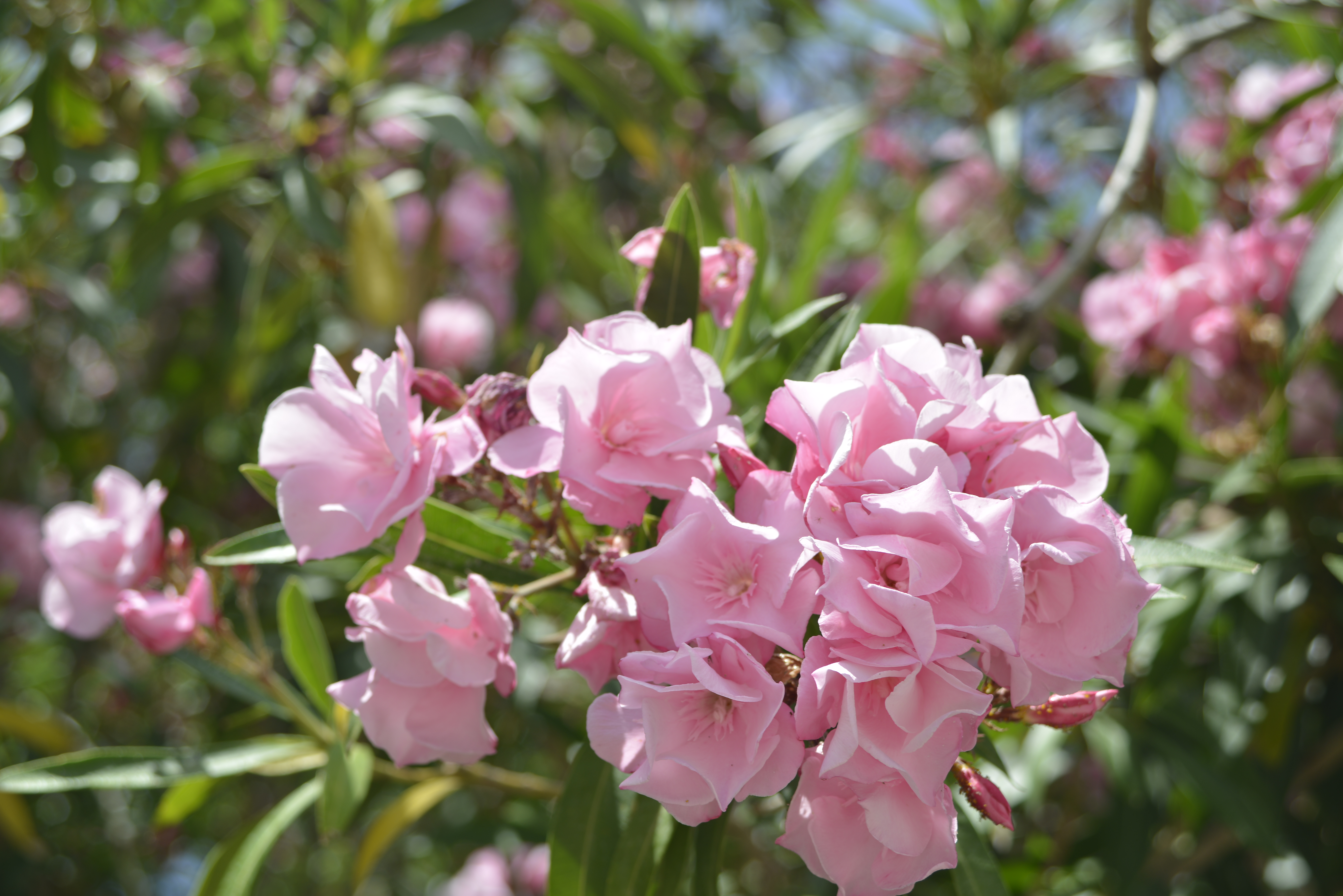 Nature and plants of Budva, Montenegro